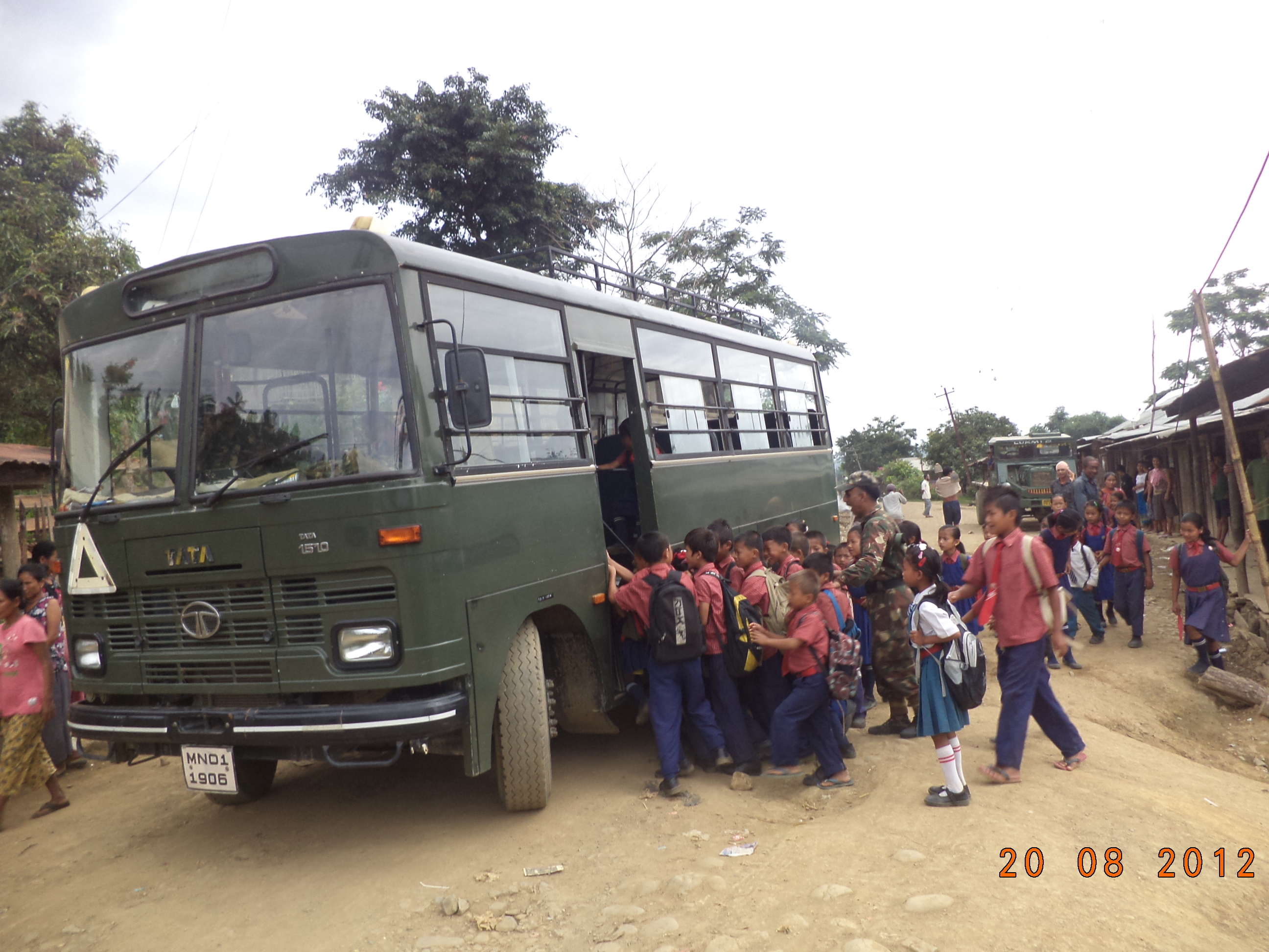 Assam Rifle te student bus service